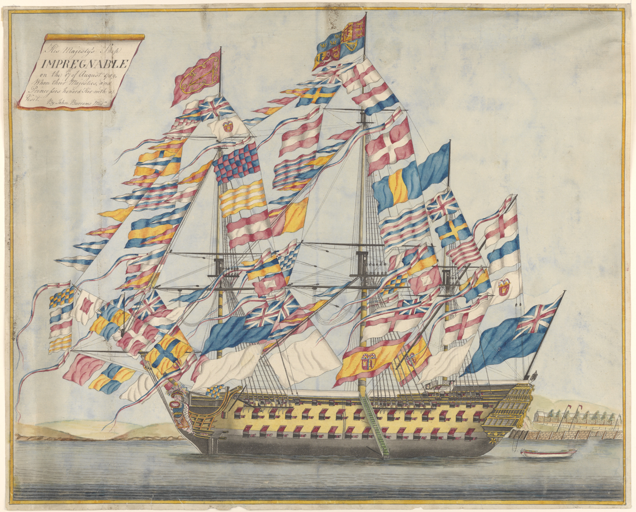 His Majesty's Ship Impregnable on the 17th August 1789, when their Majesties and Princesses honord her with a Visit original art: drawing